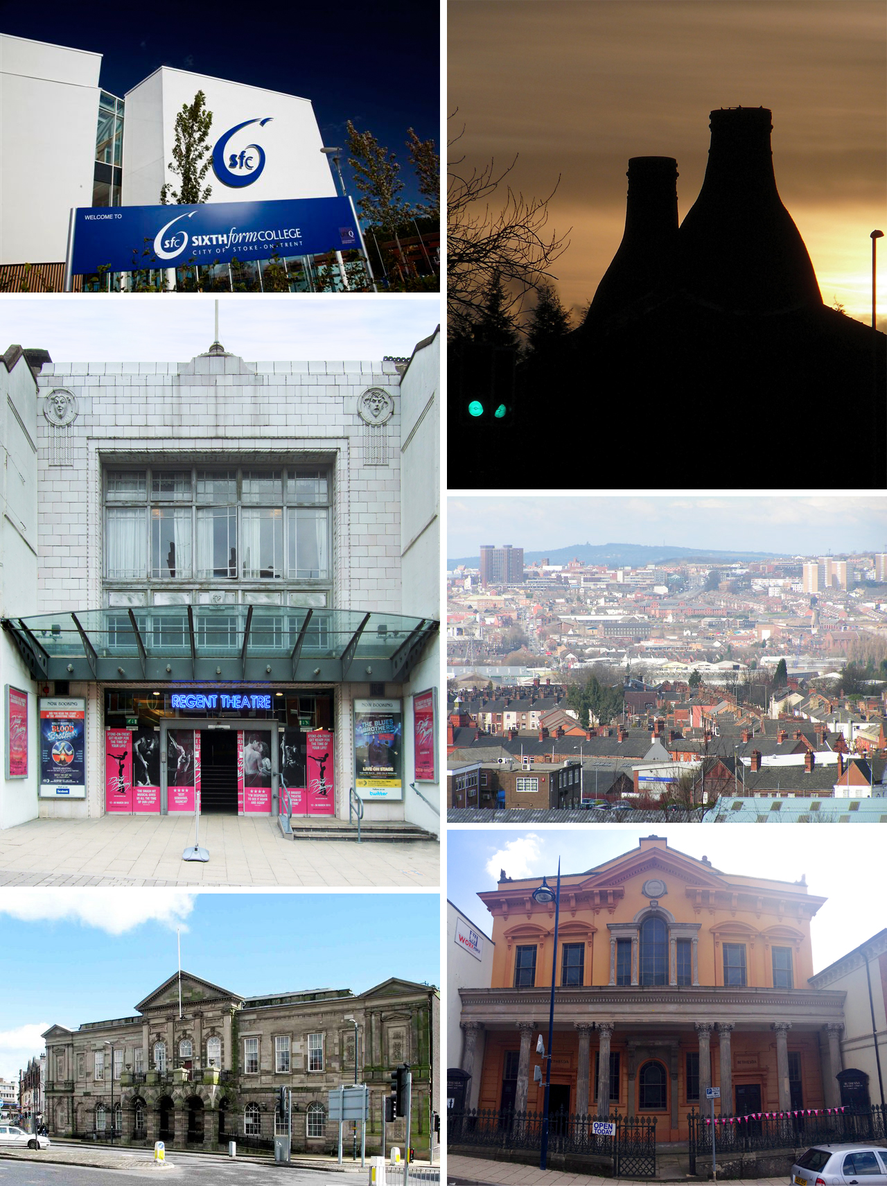 Montage of Stoke-on-Trent. Views are (top to bottom, left to right) Stoke-on-Trent Sixth Form College Bottle kilns in Longton Regent Theatre, Hanley Hanley skyline Longton town hall Bethesda Methodist chapel, Hanley